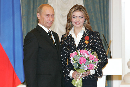 Alina Kabaeva decorated with the Order of Merit for the Fatherland by President Vladimir Putin.